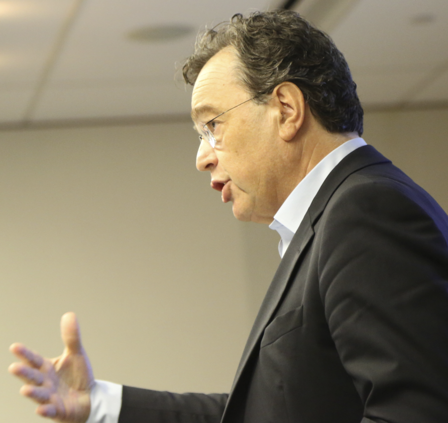 Dr. Giulio Maria Pasinetti giving a presentation at TMII's lecture series at Mount Sinai, NYC